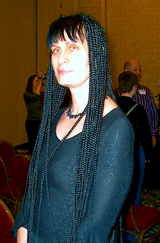 Shariann Lewitt at Readercon, 2006